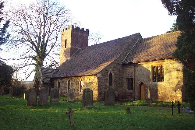 St Peter's parish church, Gayton, Staffordshire, seen from the southeast